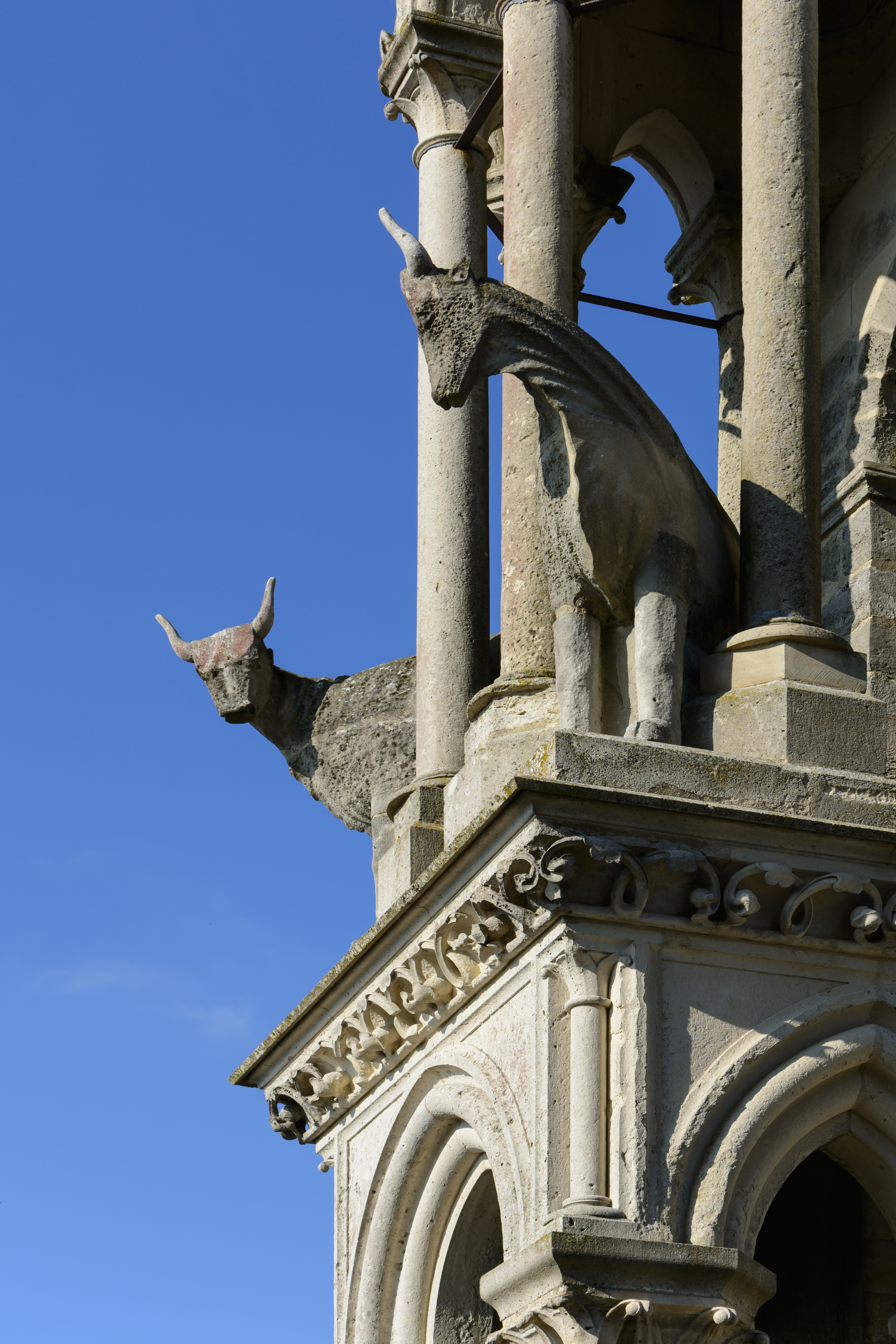 Two of the oxen at the northwest tower of Laon Cathedral Notre-Dame, Picardy, France It is indexed in the Base Mérimée, a database of architectural heritage maintained by the French Ministry of Culture, under the references PA00115710 and cathédrale .